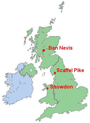 Template for Great Britain maps, remake of [1].